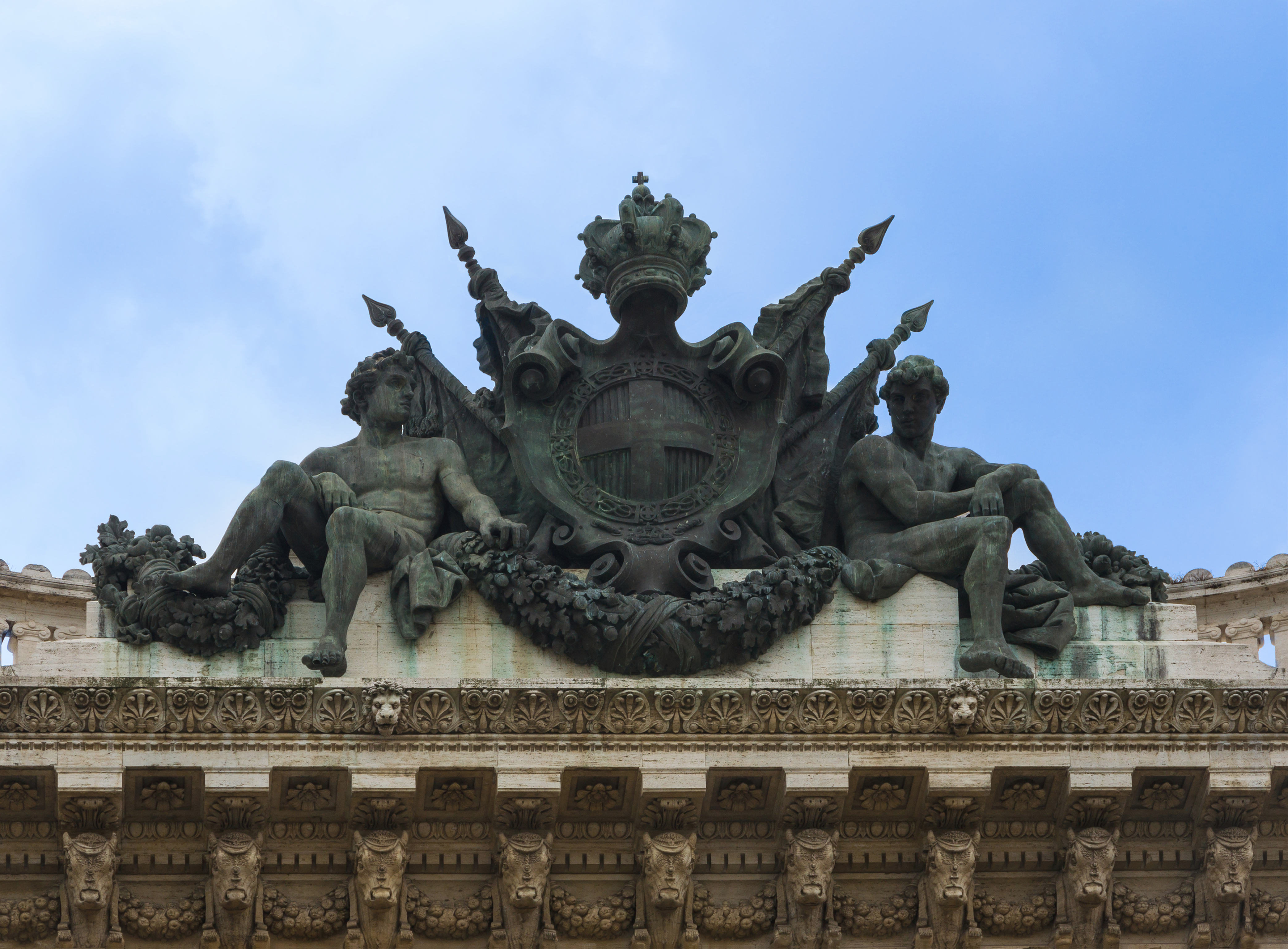 The CoA of the House of Savoia, kings of Italy, Piazza Cavour, Courthouse, Rome, Italy.